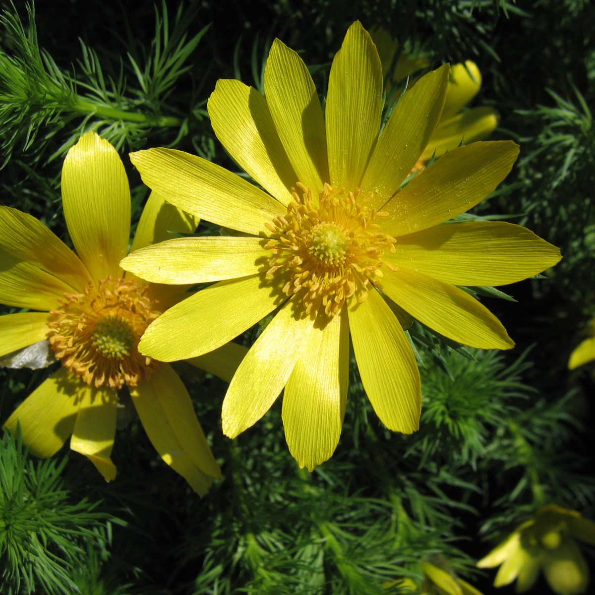 Pheasant's eye (Adonis vernalis), yellow flower, cultivated in Wrocław University Botanical Garden, Wrocław, Poland.